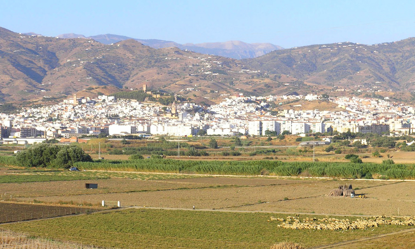 Panoramic View of Vélez Málaga, Spain.